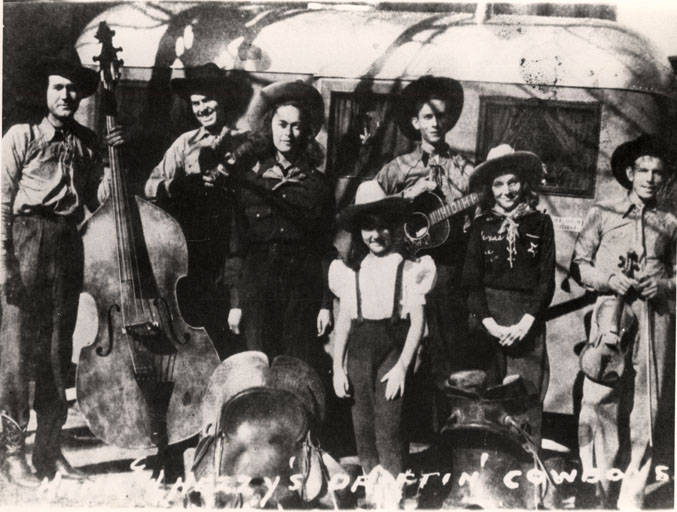 Portrait of Hank Williams' first Driftin' Cowboys Band. The name was shortened from the original, called Hank and Hezzy and the Drifting Cowboys.